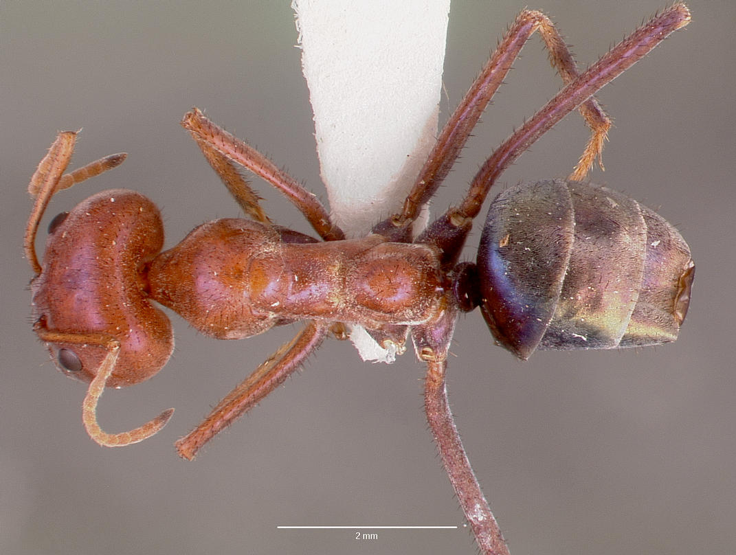 Dorsal view of ant Iridomyrmex purpureus specimen casent0006108.